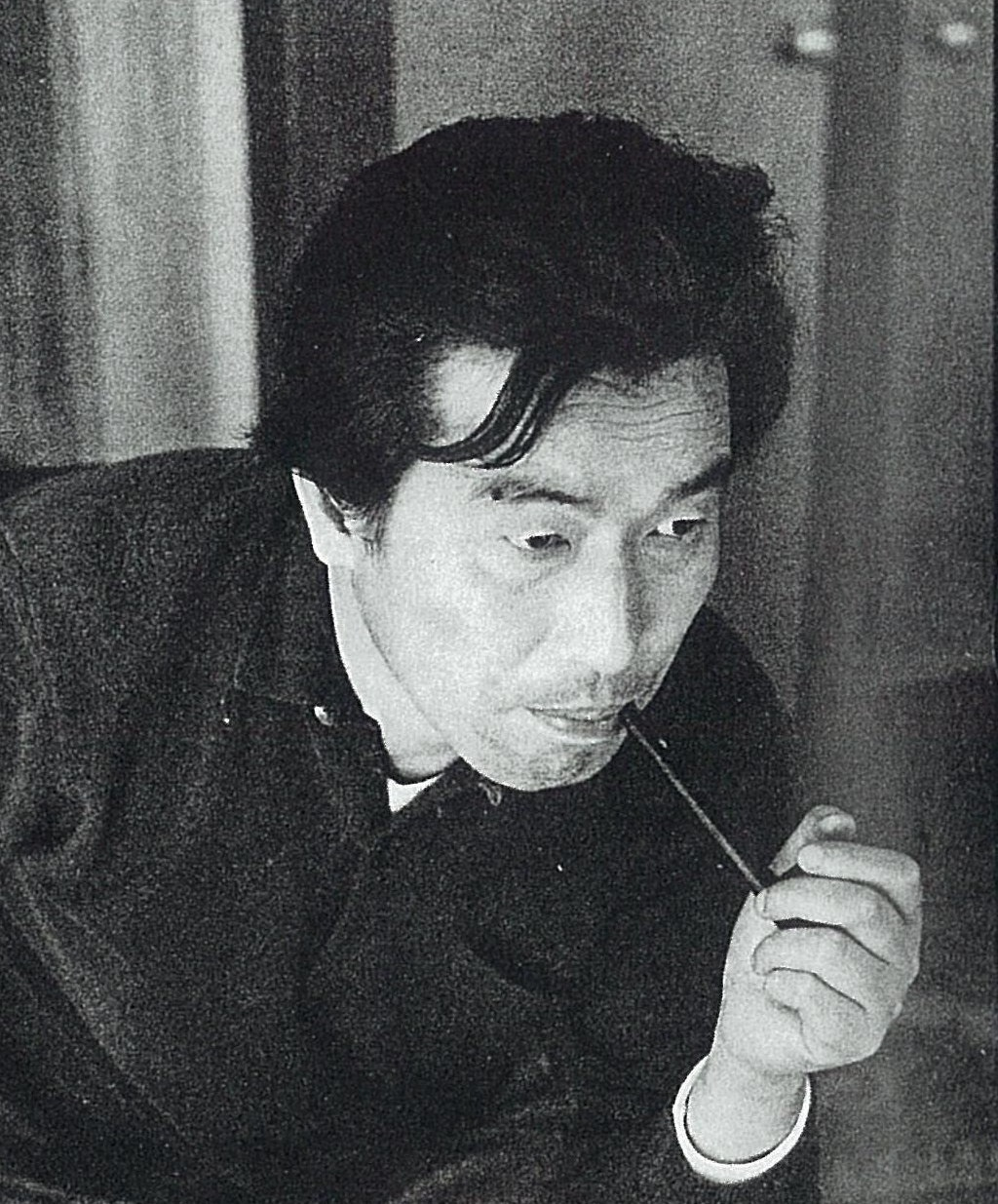 Misao YOKOYAMA (1920-1973), Japanese painter